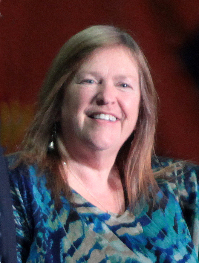 Jane O'Meara Sanders